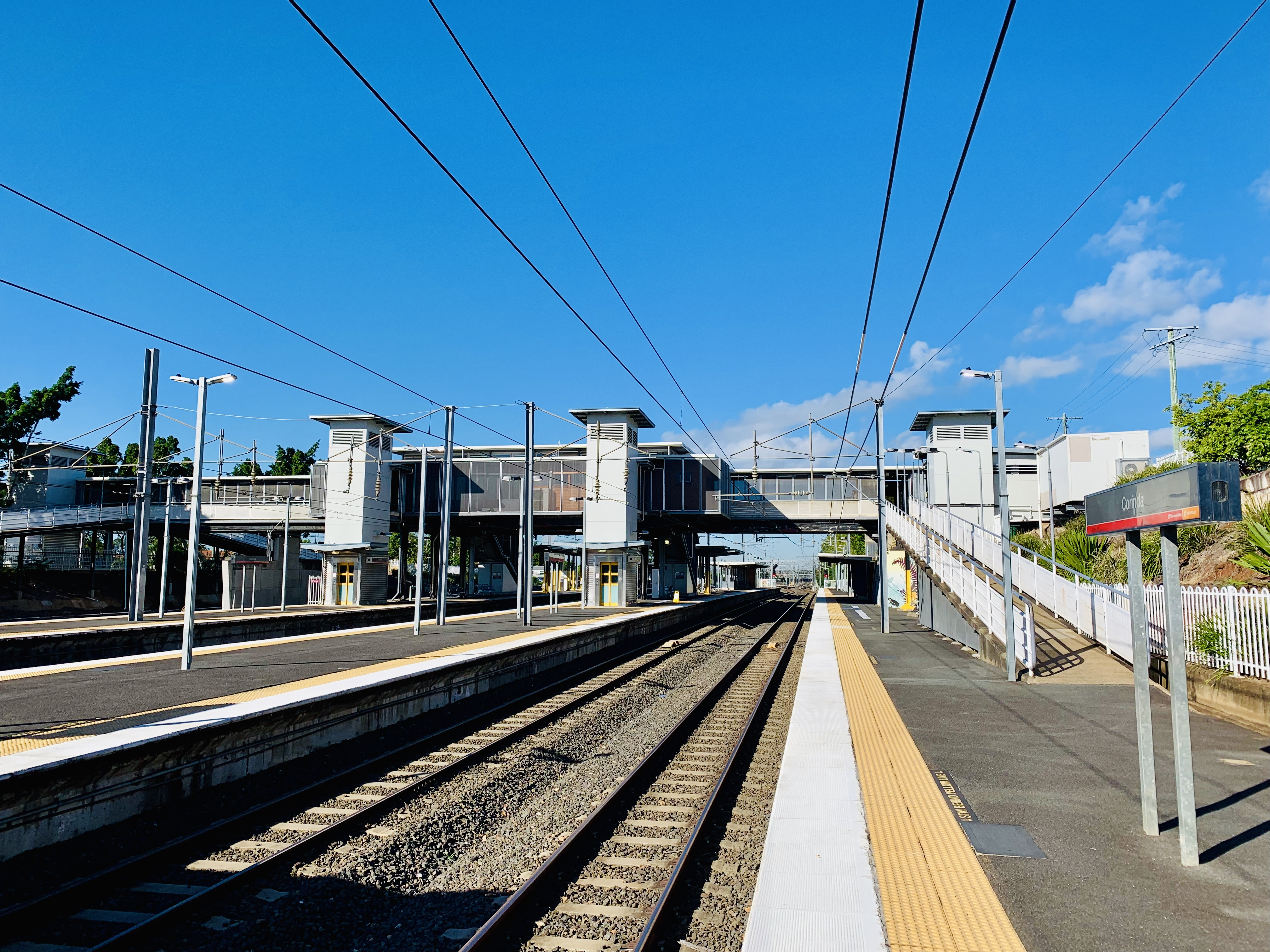 Corinda railway station platform 5, Brisbane